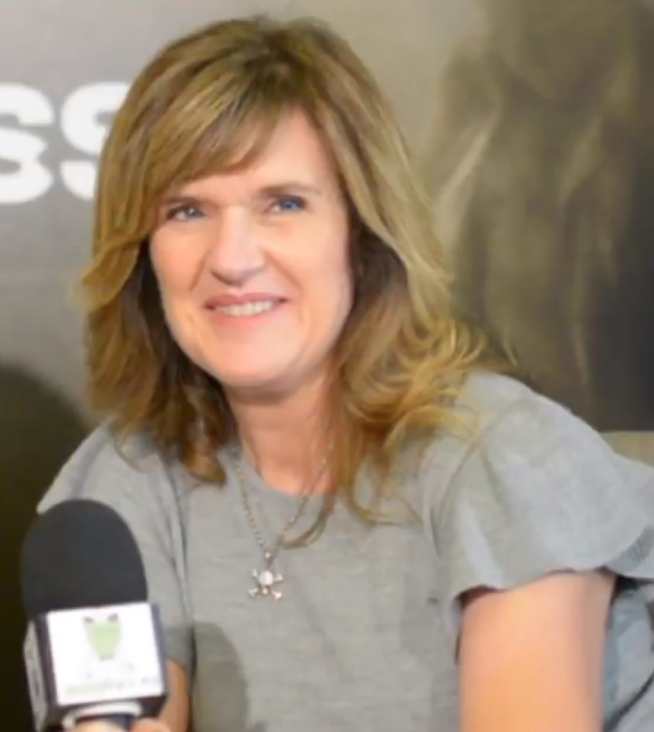 Actresses Siobhan Finneran and Laura Fraser discuss their new television series, Loch Ness (The Loch) with Moobys, Spanish web portal.